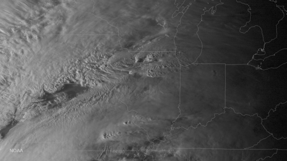 GOES East image of supercell thunderstorms associated with a storm system that produced a significant tornado outbreak in the Midwest during February 28–March 1, 2017.